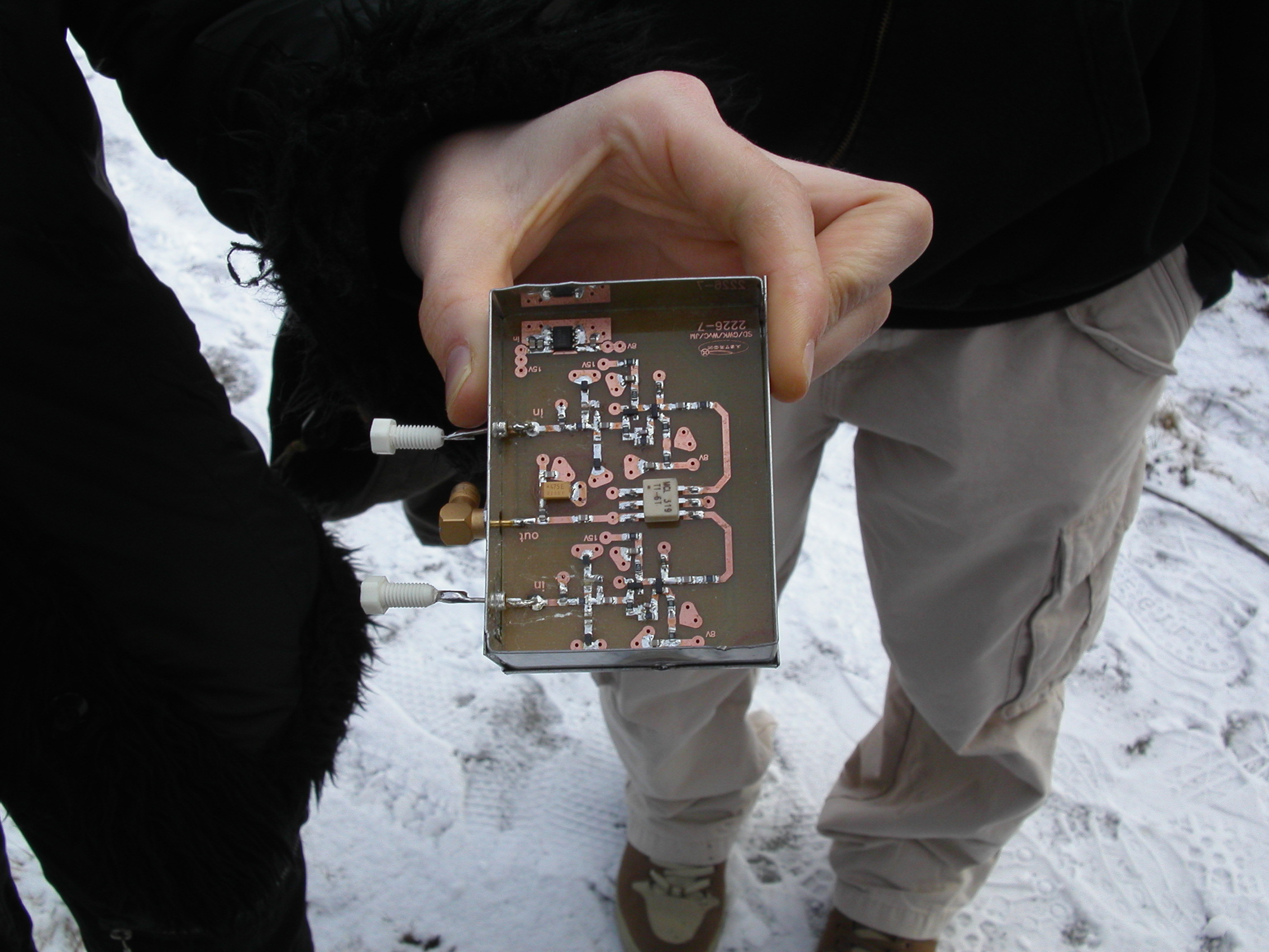 Electronics of a LOFAR site